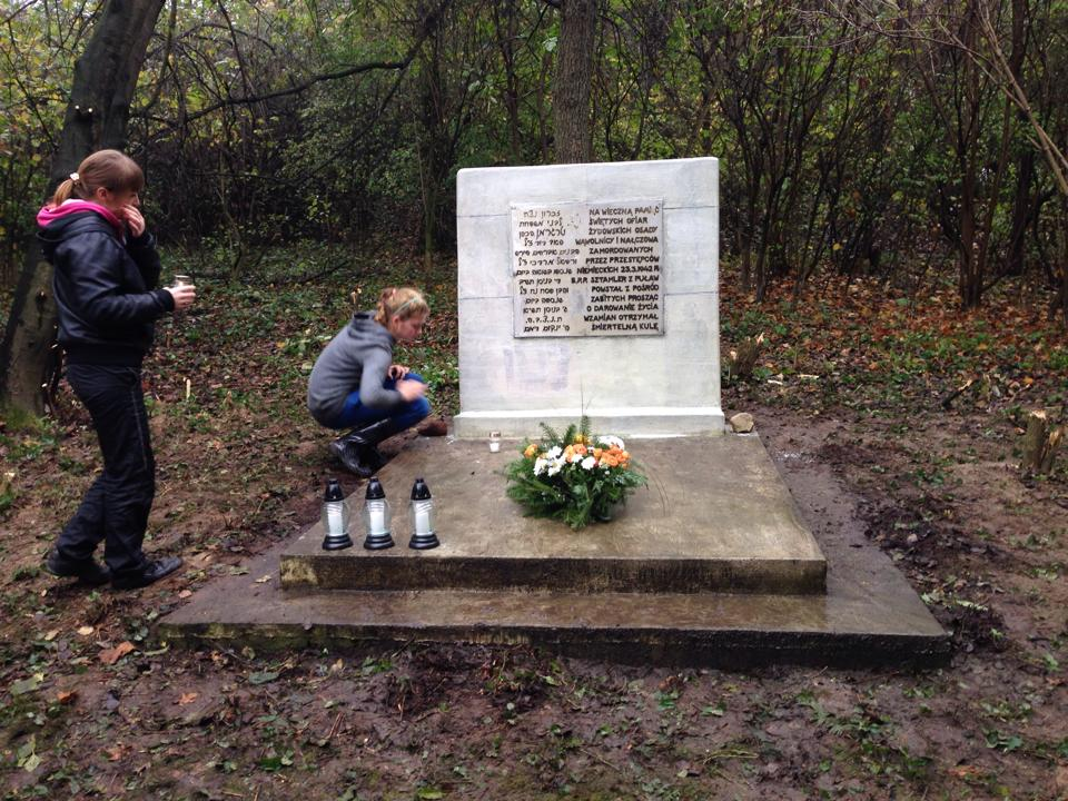 Commemoration of the execution in the Jewish cemetery in Wąwolnica. The monument was renovated by Stowarzyszenie "Studnia Pamięci" and volunteers from Gimnazjum Publiczne in Wąwolnica in 2014.